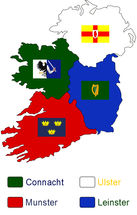 Irish Rugby Provincial Teams location, current team colours and flags